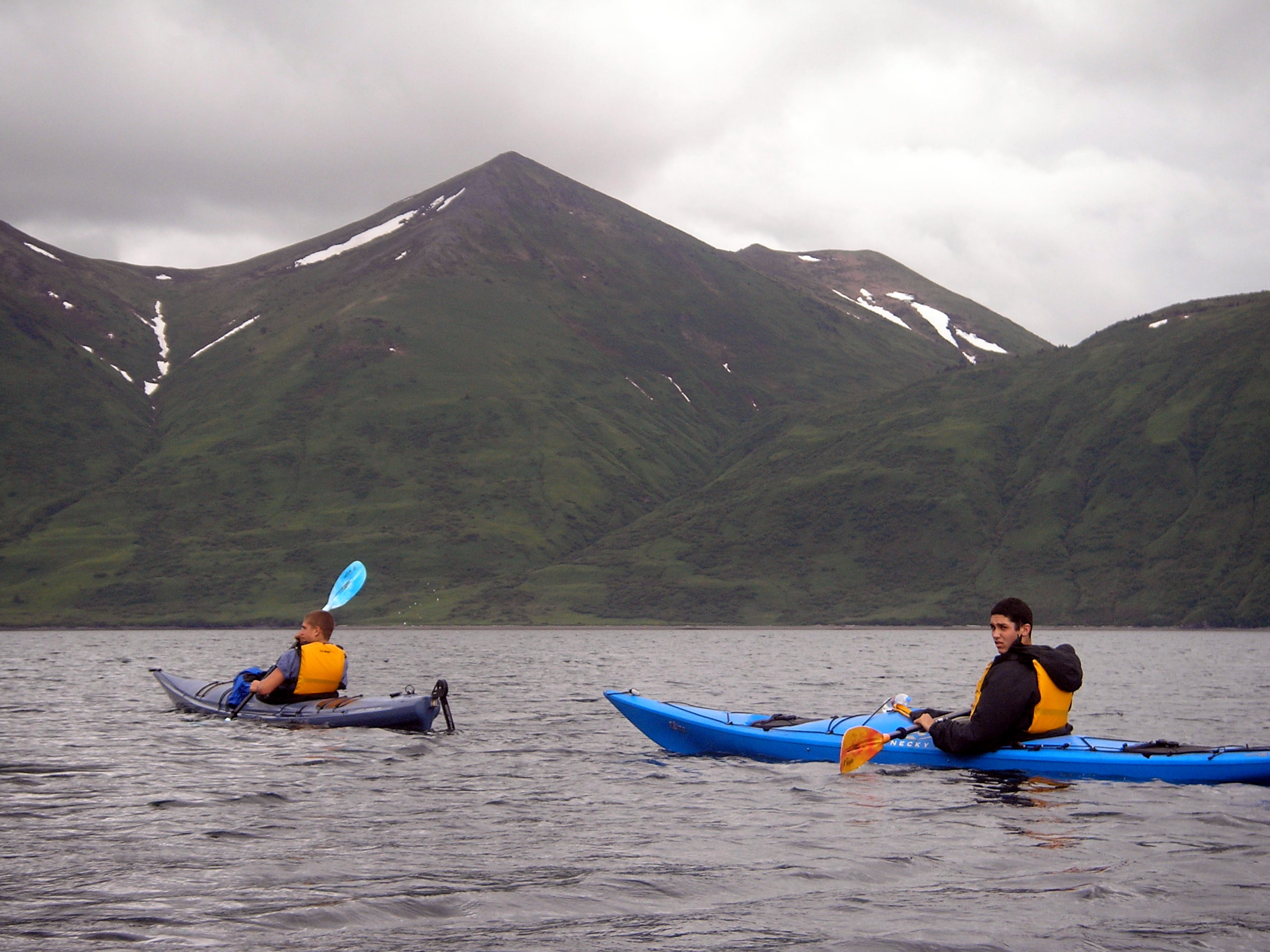 Kayaking in the Kodiak Archipelago